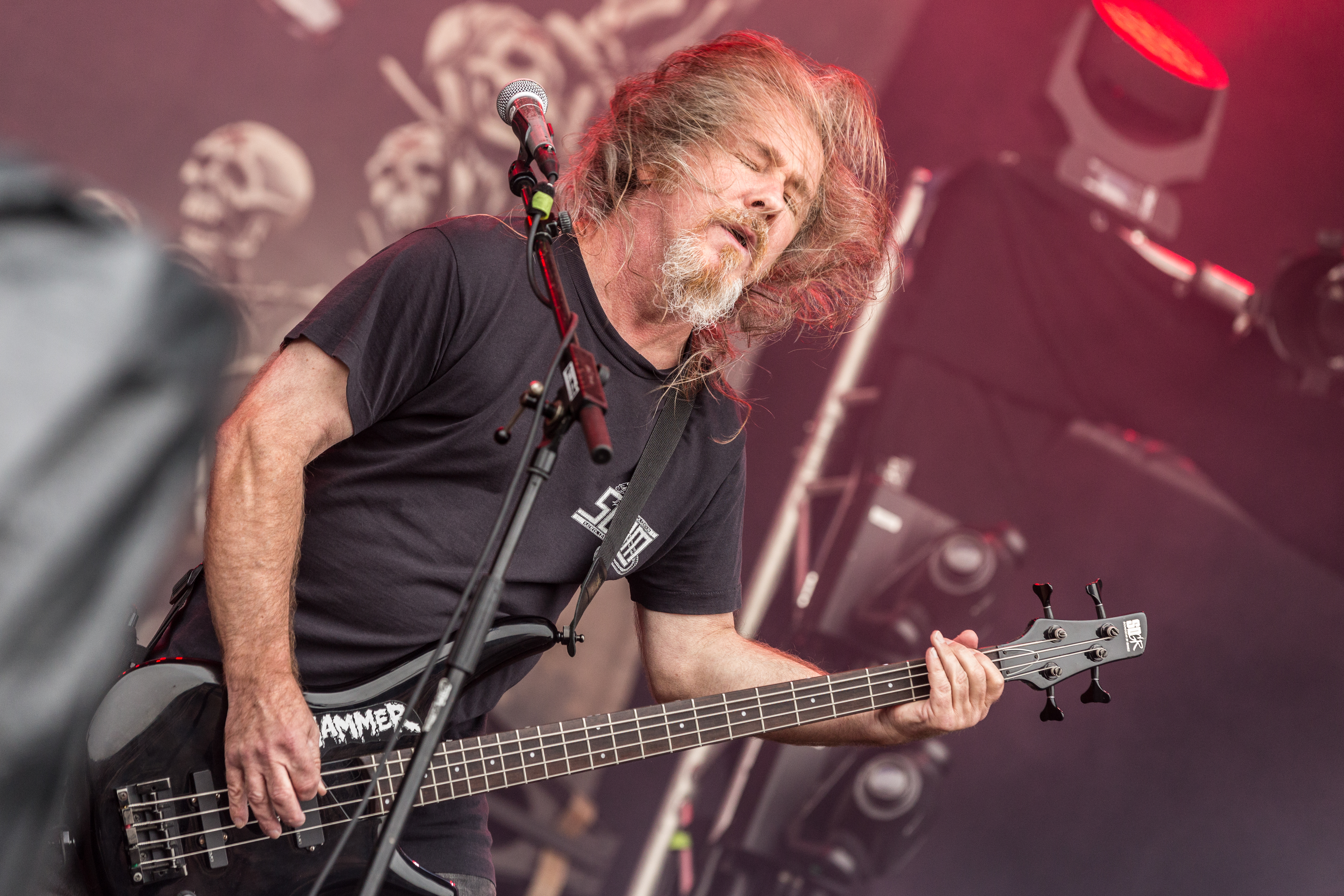 The American thrash metal band Demolition Hammer at the Party.San Metal Open Air 2017 in Obermehler-Schlotheim/Germany.